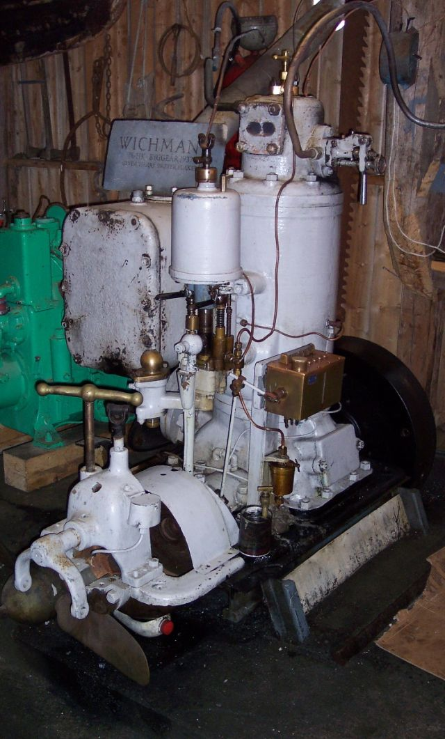 A well-used one-cylinder marine diesel engine.